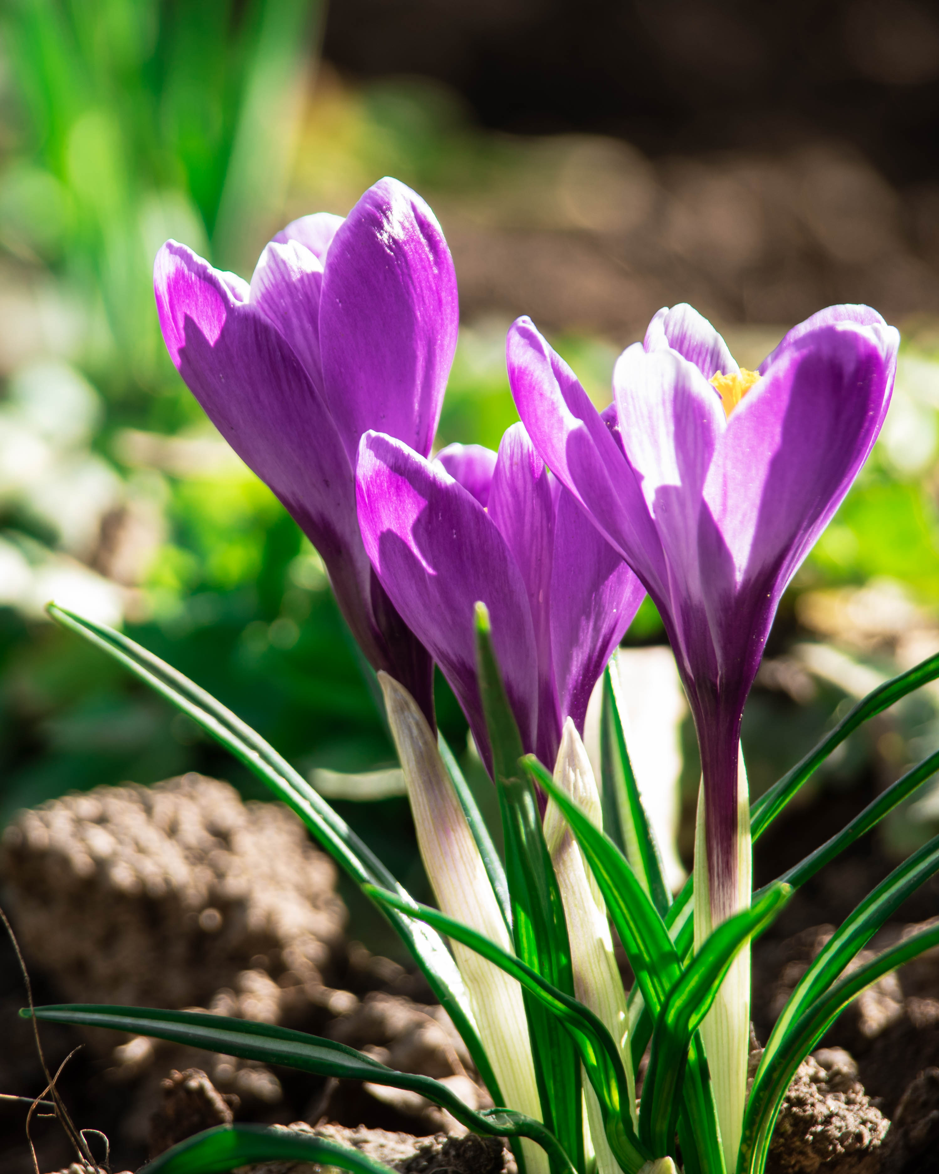 spring crocus